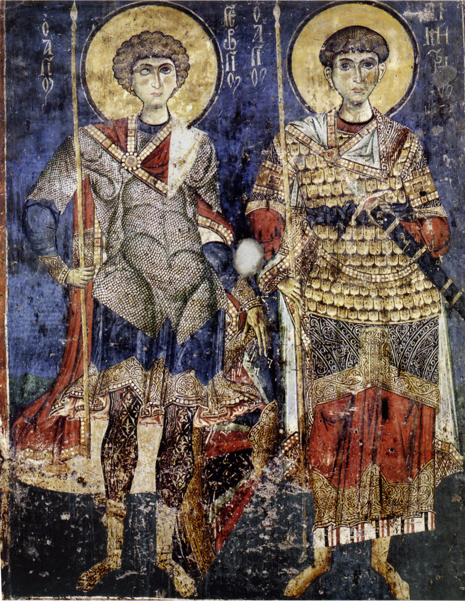 Св Георгий и Димитрий ок.1180. Фреска Бессребреников в Кастории.